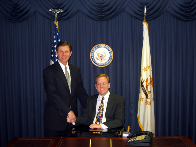 Former Representative from the Second District Bob Weygand visits Congressman Langevin's district office in April 2002.